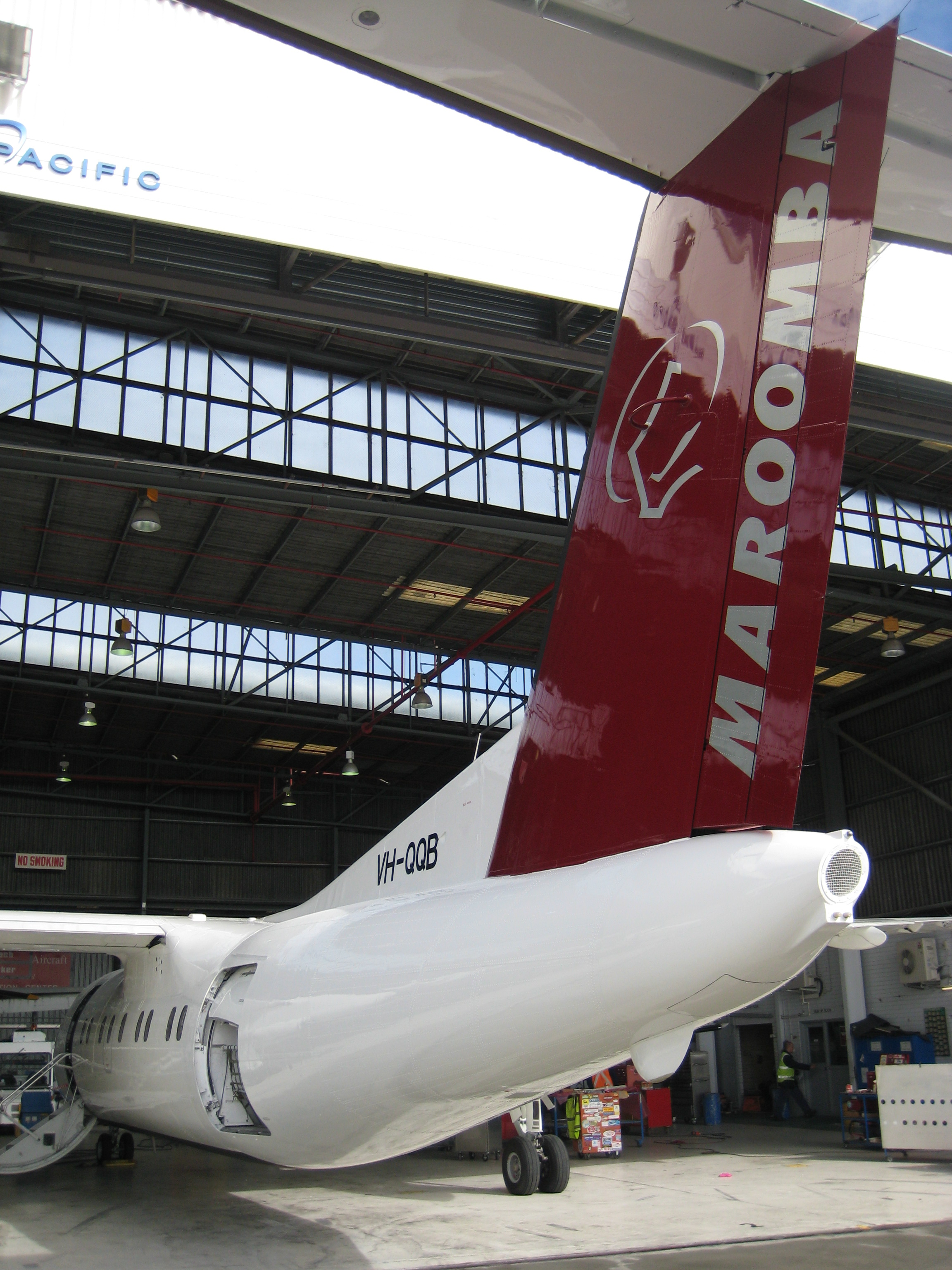 Skytrans DHC-8 Dash-8 with Maroomba Airlines markings.